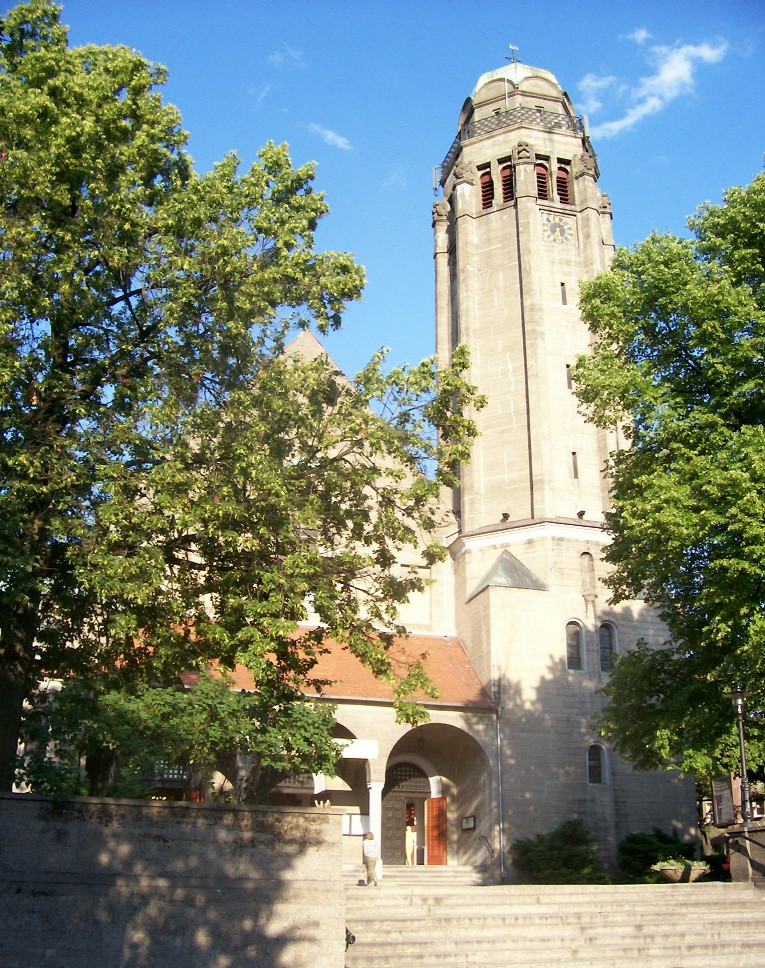 The church of St. Aspostles Peter and Paul, in Opole, Poland